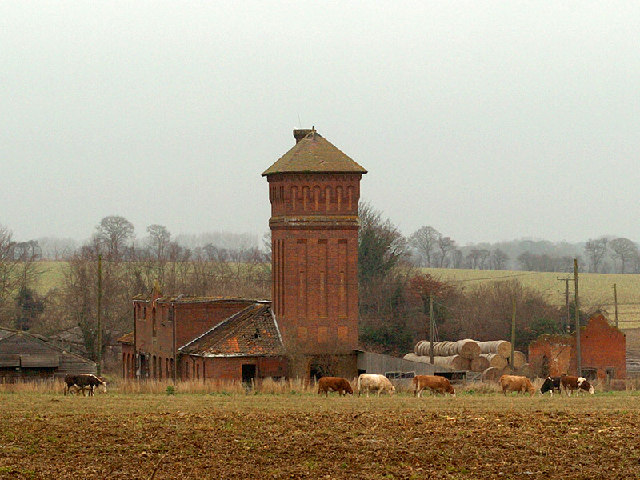 Horstead Hall, Norfolk. The stable block and water tower are the only visible remains of Horstead Hall. Built in 1835 on the site of an Elizabethan house, it was demolished in the mid 20th century. During WW2 it was a cipher clerk training school. The house was the home of the Harbord family. Charles Harbord, 5th Baron Suffield (1830-1914) was a good friend of Edward VII.